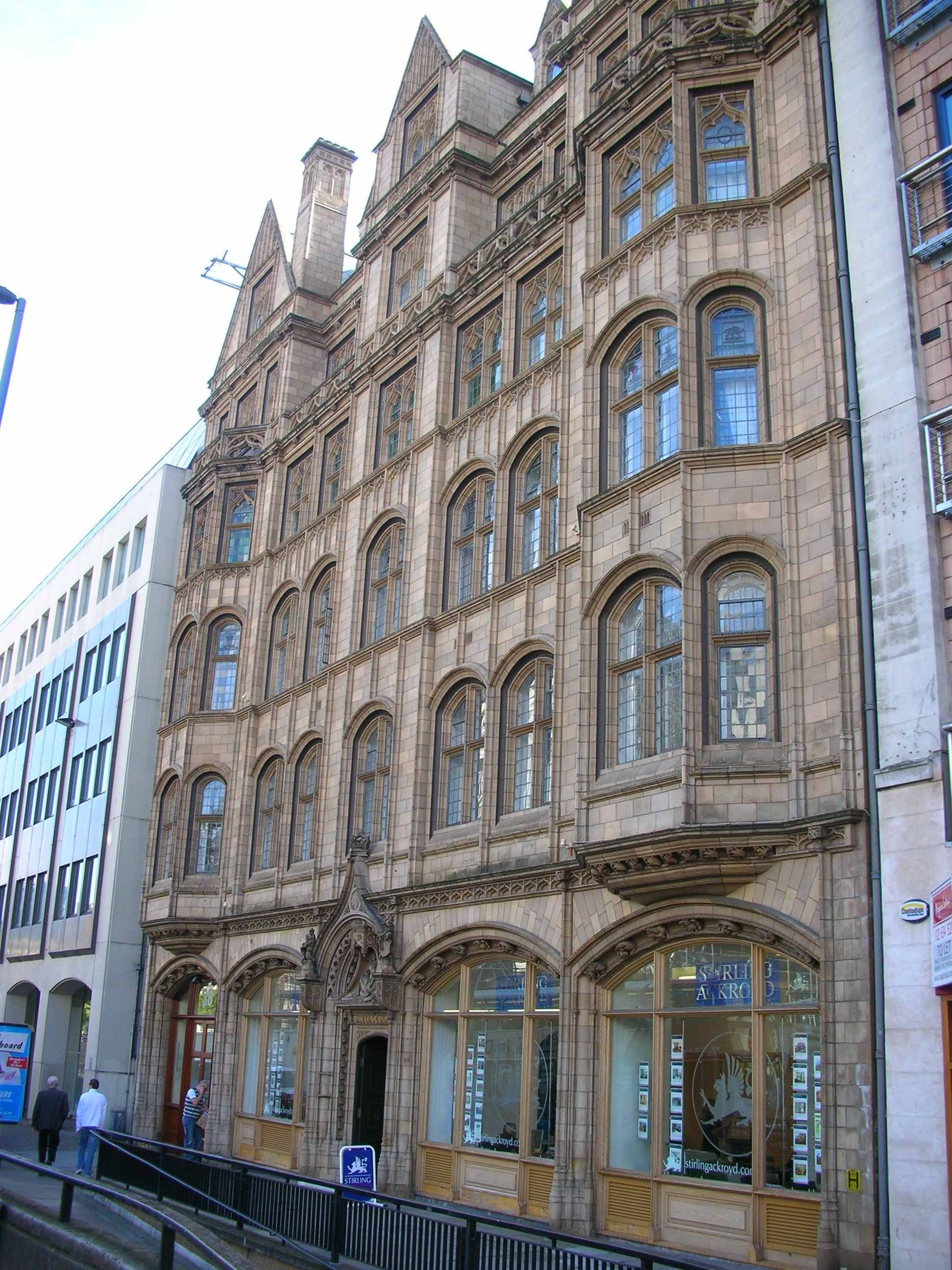 The 1904 grade II listed façade of Queen's College, Birmingham, England. Now Queen's Chambers (office and residential). Photographed by me 18 September 2006. Oosoom